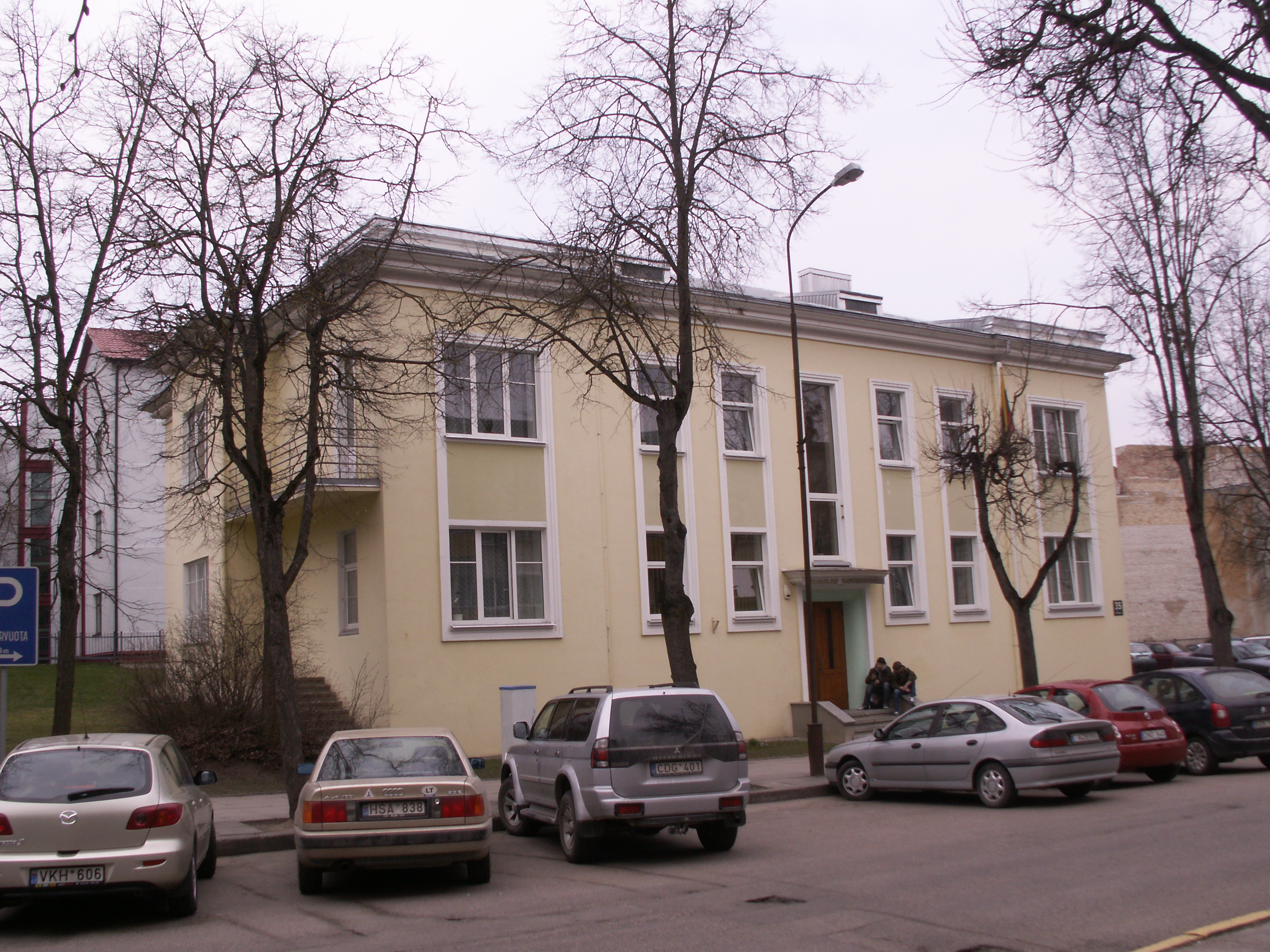 Konservatorium of Šiauliai, Lithuania